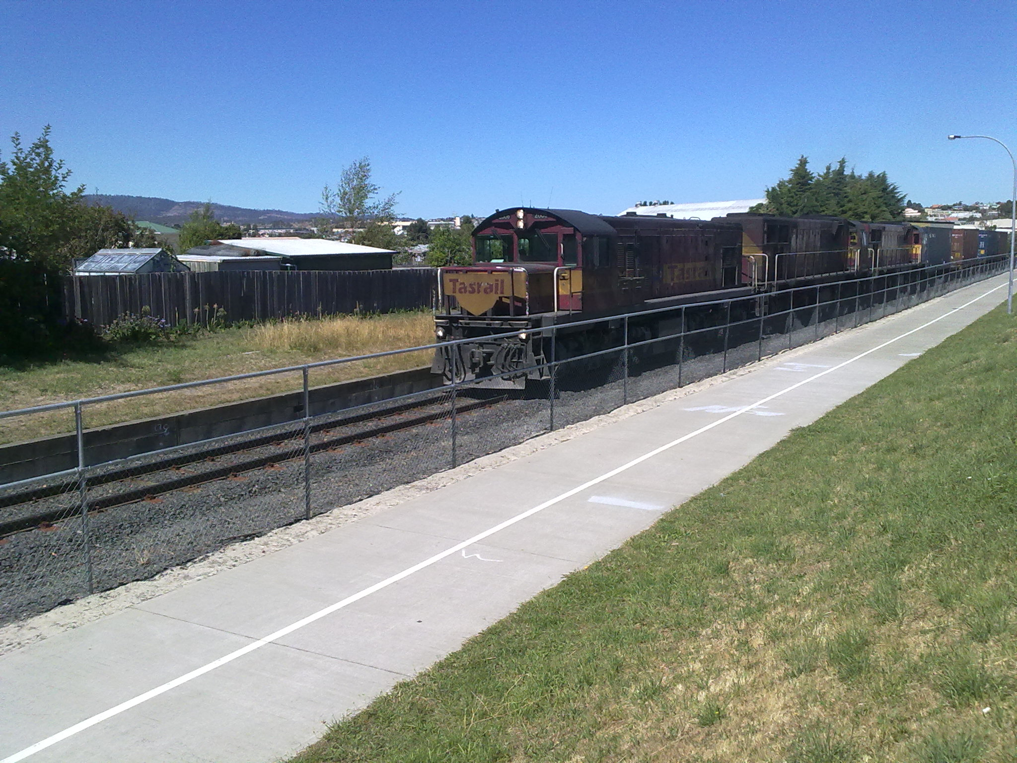 A train heading north on the south line, at Glenorchy, Tasmania.